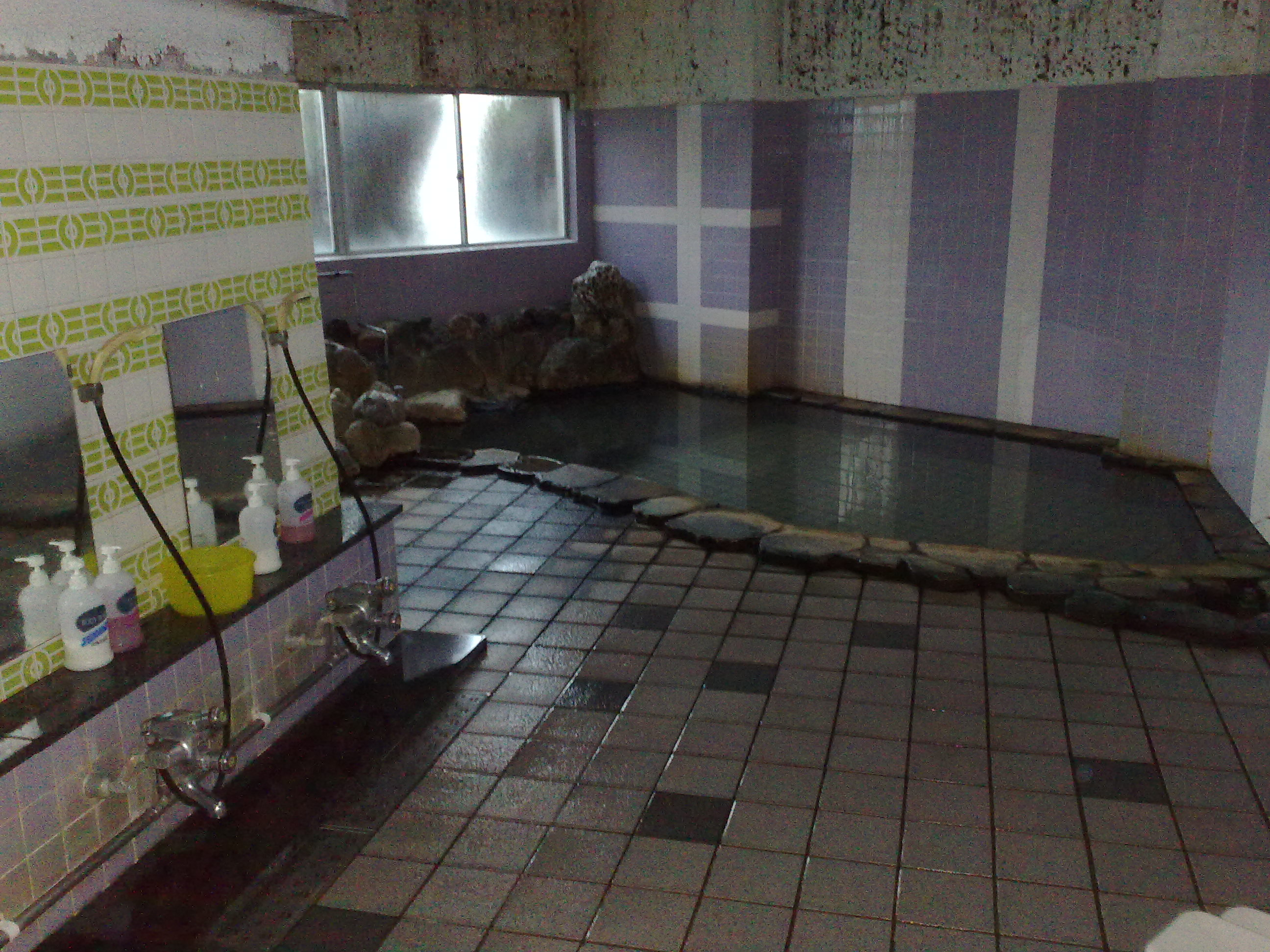 An inner hot spring bath of Yoshi-no-yu, one of tourist inns of Shikabe Onsen.